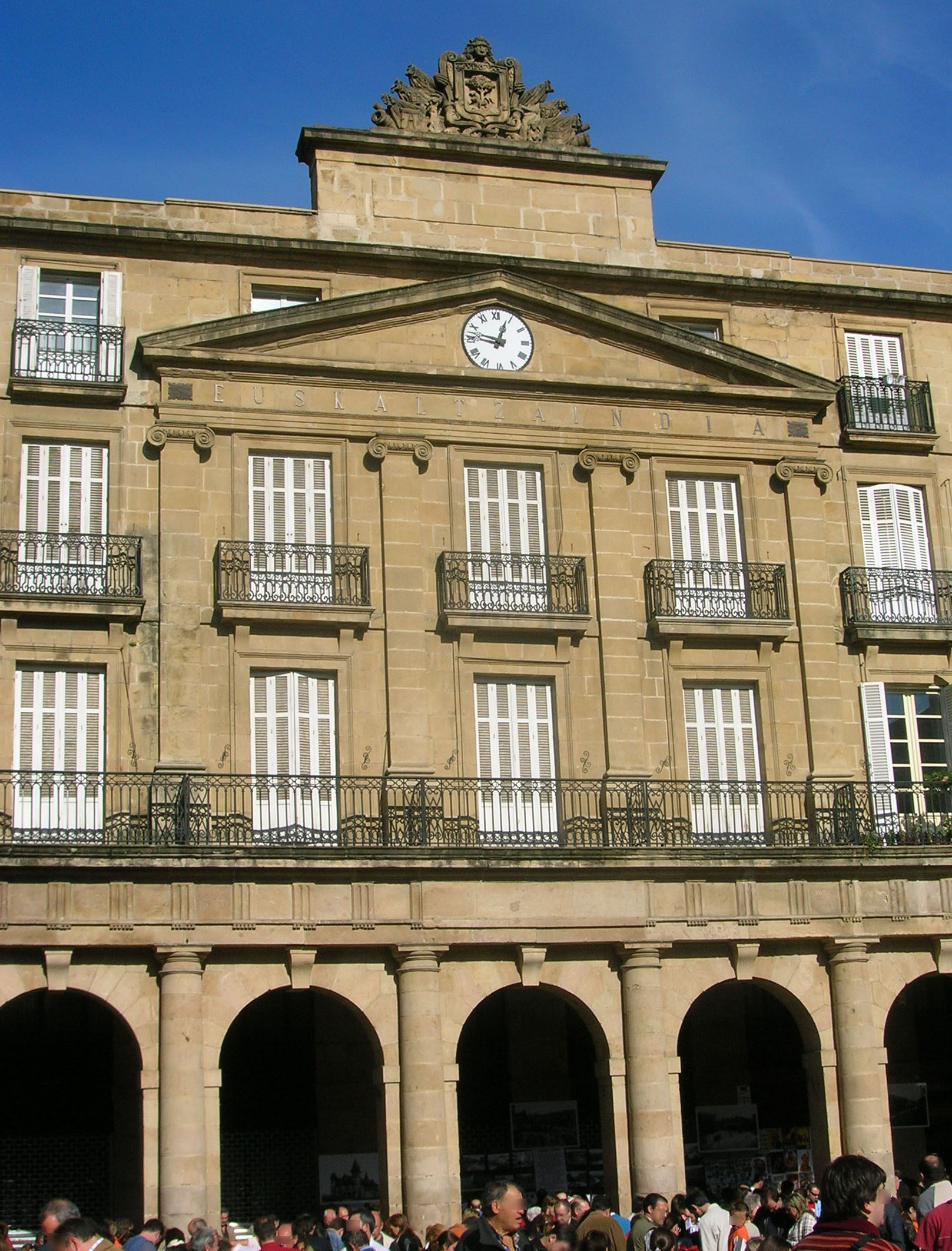 Euskaltzaindia's office in Bilbao's Plaza Nueva / Plaza Barria. A detail of this image was used (without due attribution) in page 16 of issue 87 of the council bulletin of Leioa.